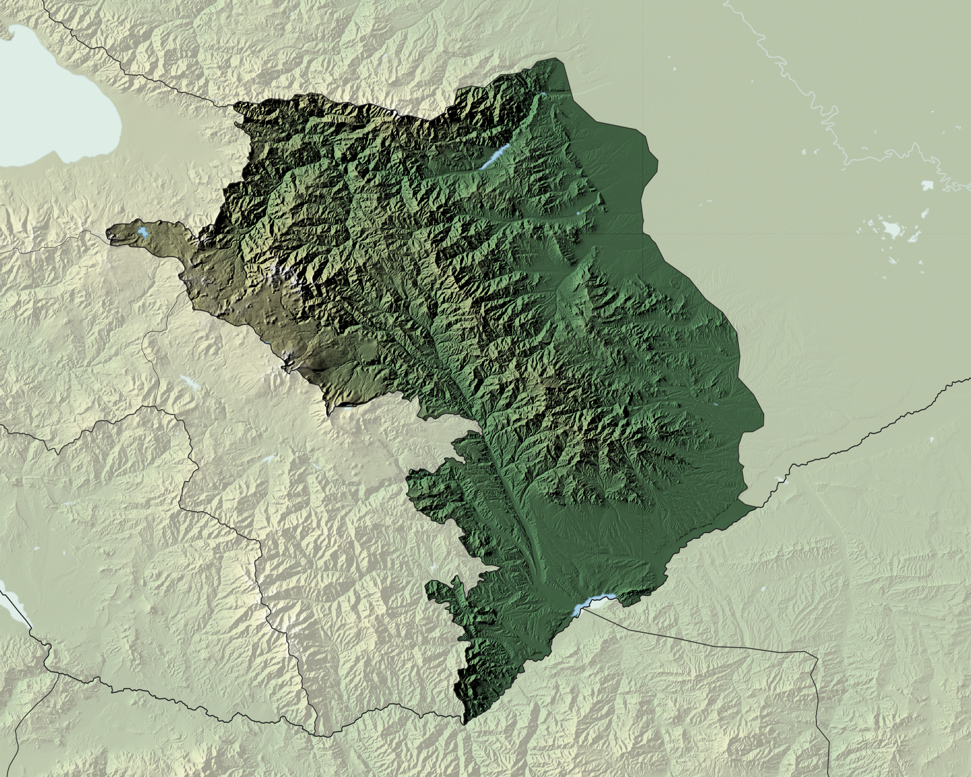 Hillshaded map of Artsakh Republic